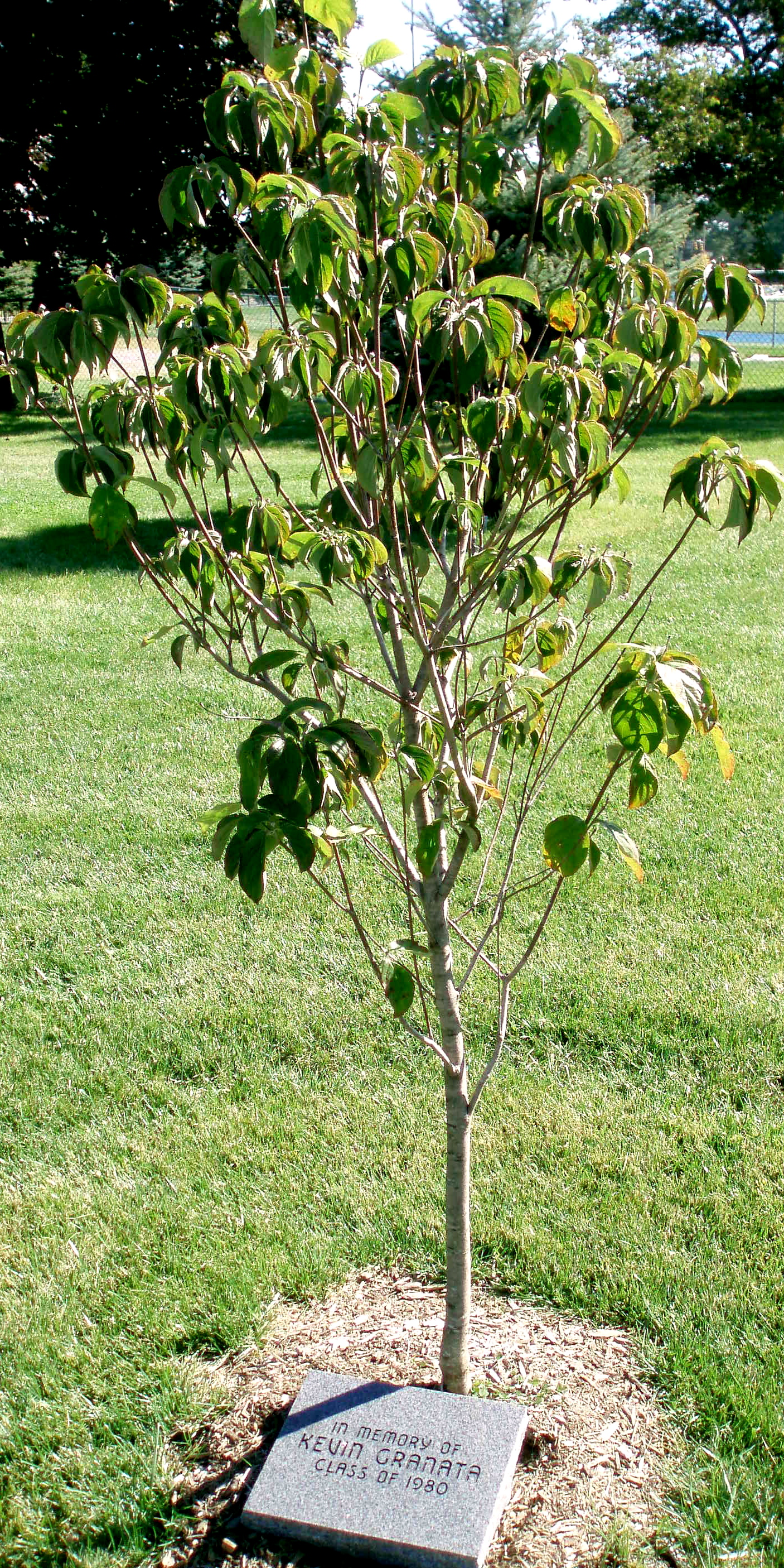 A memorial tree on the St. Francis de Sales High School campus honoring Kevin Granata.